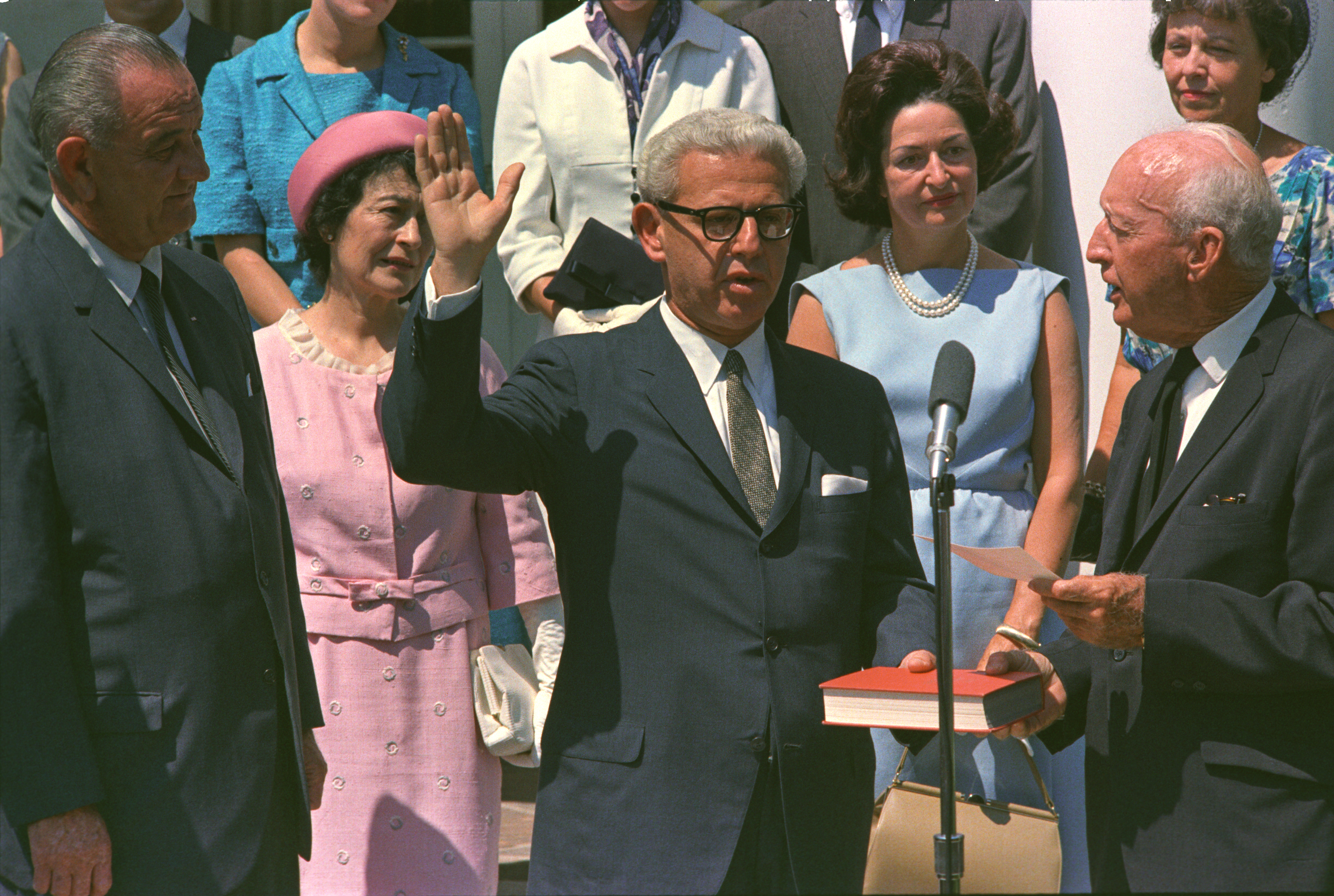 Justice Hugo Black administers the oath of office for Arthur Goldberg as U.S. Ambassador to the United Nations. Lyndon Johnson (left) and Lady Bird Johnson (2nd from right) look on.